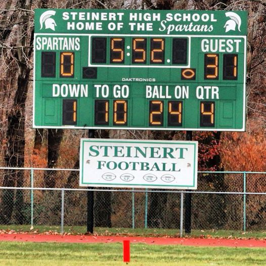 Scoreboard located at the Steinert High School (Hamilton High School East) football field.